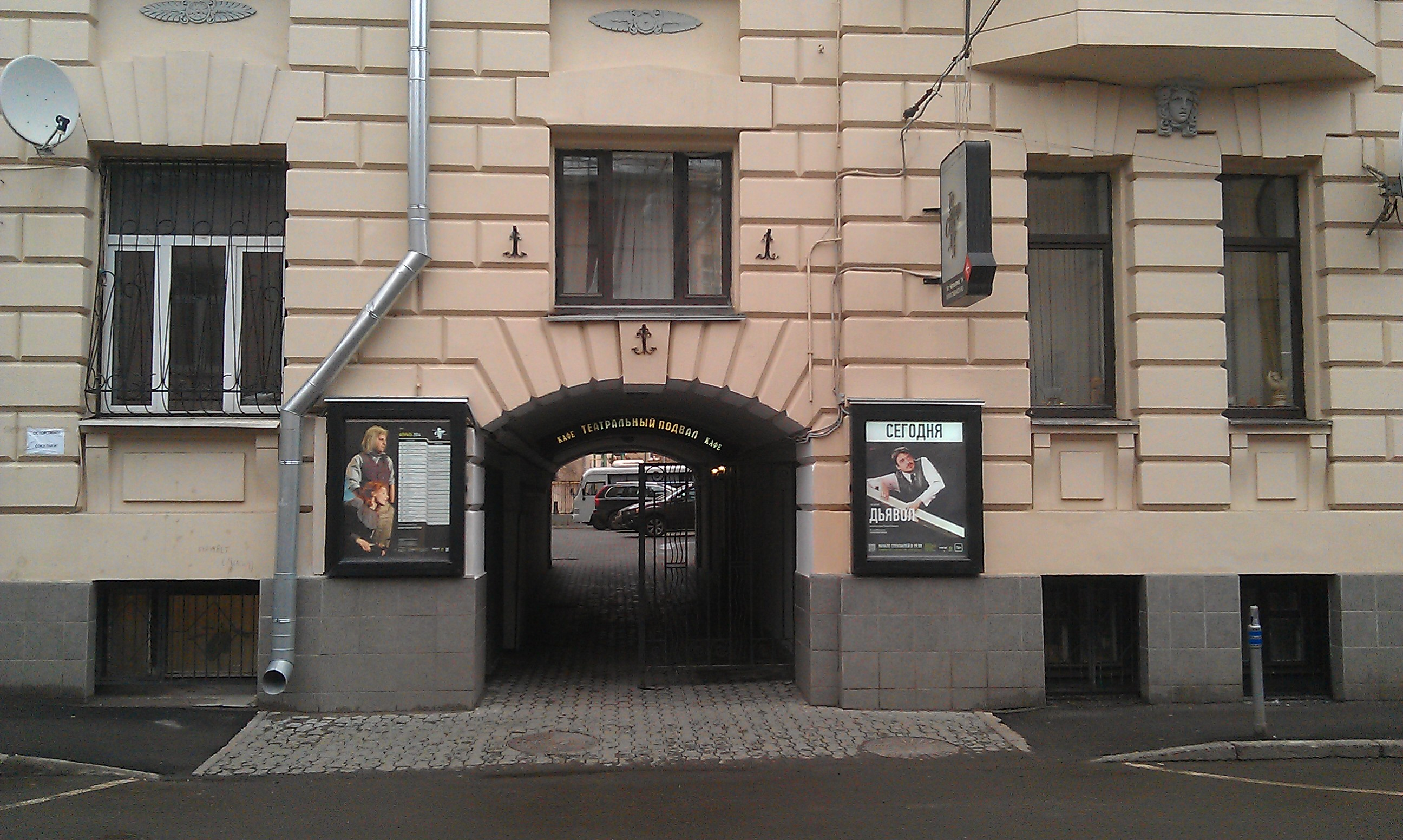 вход в Московский театр-студию под руководством Олега Табакова